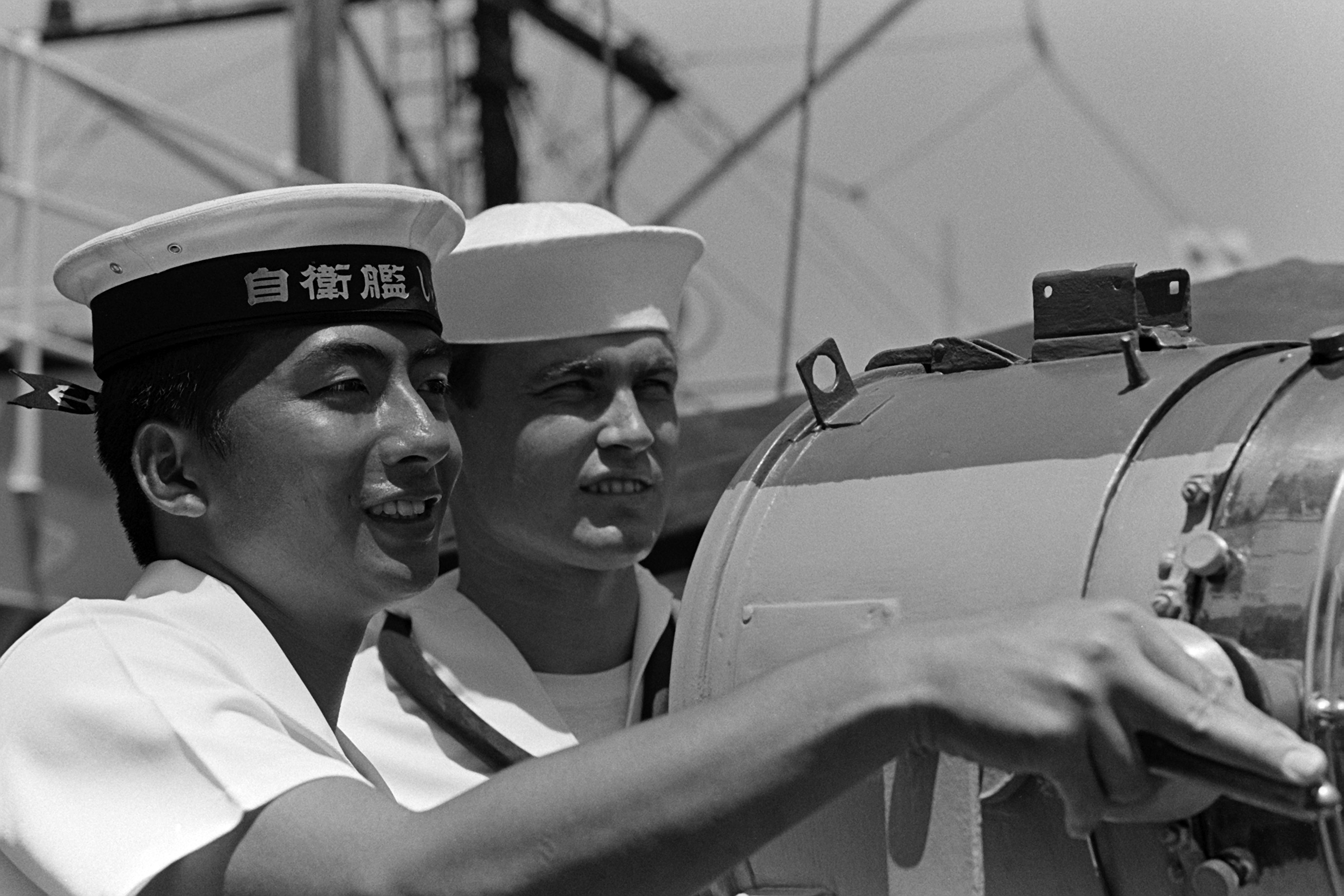 An American sailor shows a Japanese sailor how to use a signal light aboard the amphibious command ship USS Blue Ridge (LCC-19). Crewmen from the Japanese Maritime Self Defense Force destroyer Shirane (DDH-143) and the frigate Ōi (DE-214) are visiting the Blue Ridge.